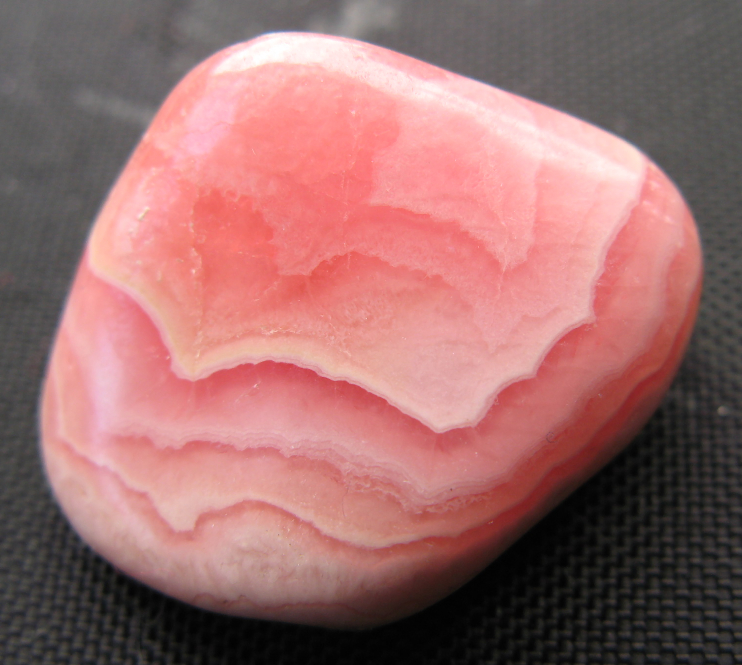 Rhodochrosite - tumble polished stone